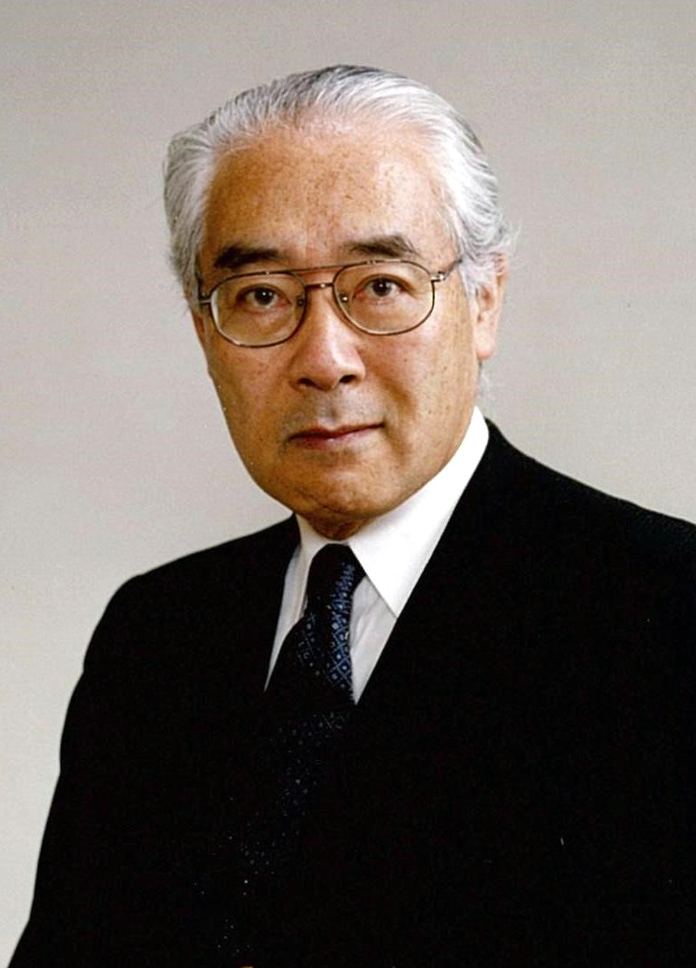 Kōtarō Suzumura, Professor Emeritus of Hitotsubashi University, received the Person of Cultural Merit on November, 2017.